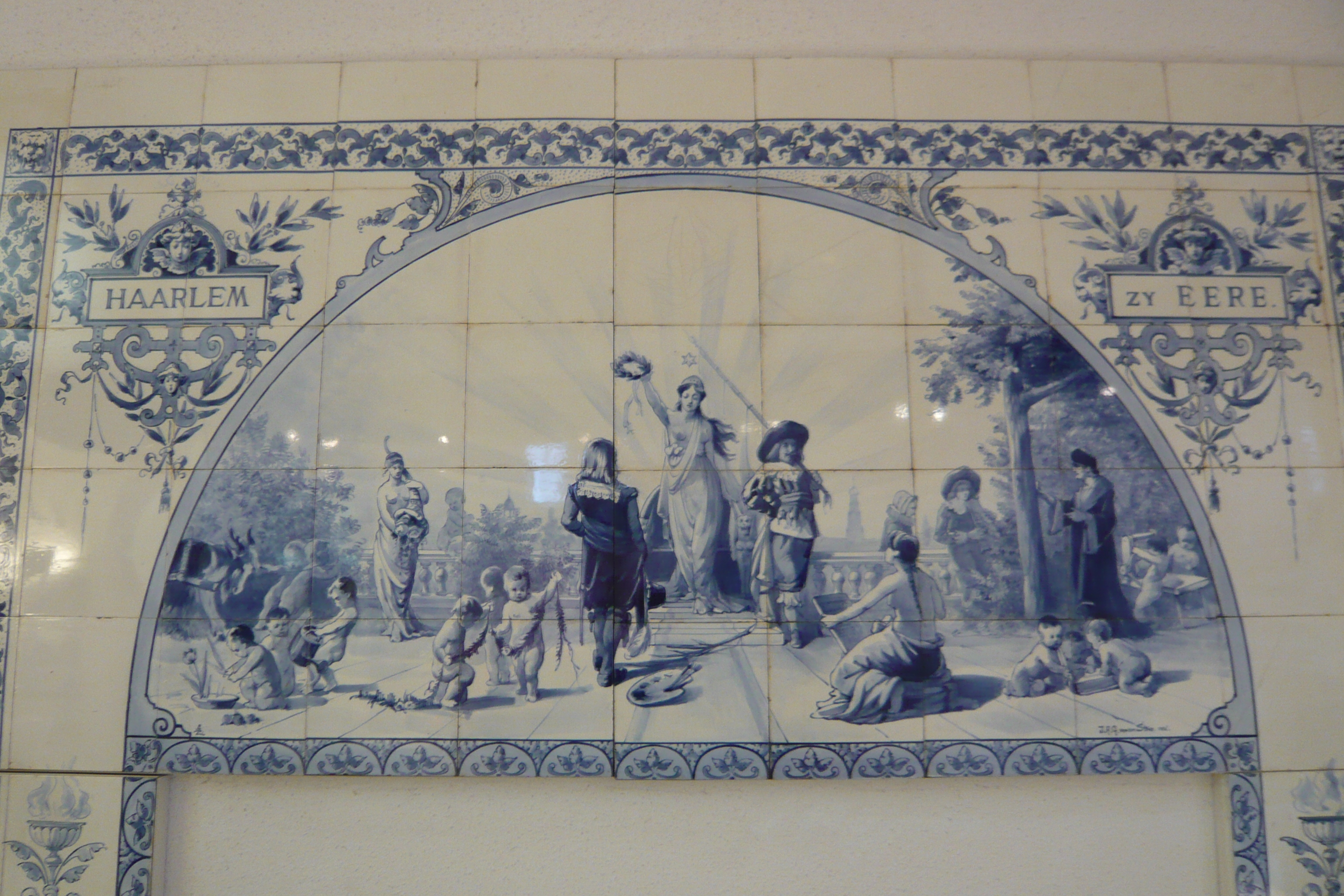 Haarlem Historisch Museum "Haarlem - Zy Eere"; tegeltableau uit 1888 van voormalige schoorsteen in Hotel Funckler op de Jansstraat in Haarlem. Ooit gemaakt door de Delft tegelfabriek Porceleyne Fles Joost Thooft & Labouchere